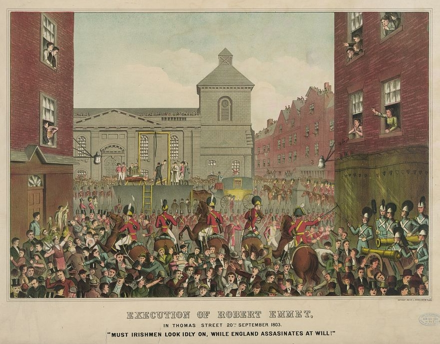 Irish nationalist Robert Emmet (1778-1803). "Execution of Robert Emmet, in Thomas Street, 20th September 1803. Must Irishmen look idly on, while England assassinates at will!"